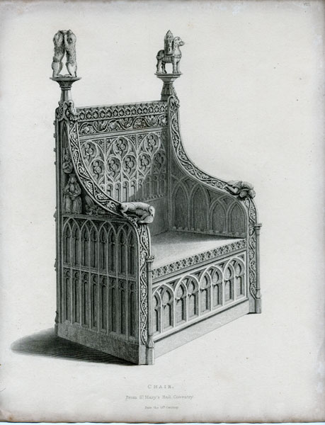 Drawing of old chair from St Mary's Hall, Coventry, United Kingdom. From Henry Shaw, Specimens of Ancient Furniture (1836); given there as mid 15th century.